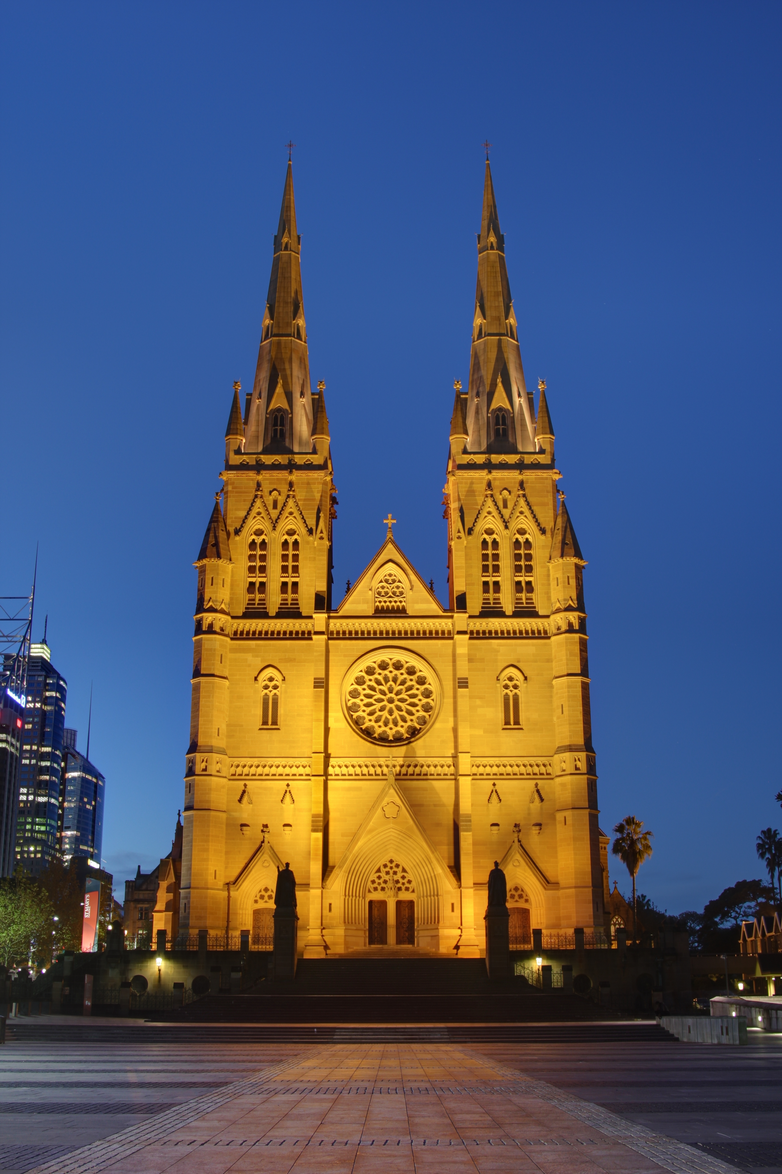 St Mary’s Cathedral is the seat of the Roman Catholic Archbishop of Sydney, currently Cardinal Archbishop George Pell. The cathedral is dedicated to “Mary, Help of Christians”, Patron of Australia. St Mary’s holds the title and dignity of a minor basilica, bestowed upon it by Pope Pius XI in 1930. It is the largest church in Australia, though not the highest. It is located on College Street in the heart of the City of Sydney where, despite the high rise development of the CBD, its imposing structure and twin spires make it a landmark from every direction. In 2008, St. Mary's Cathedral became the focus of World Youth Day 2008 and was visited by Pope Benedict XVI.